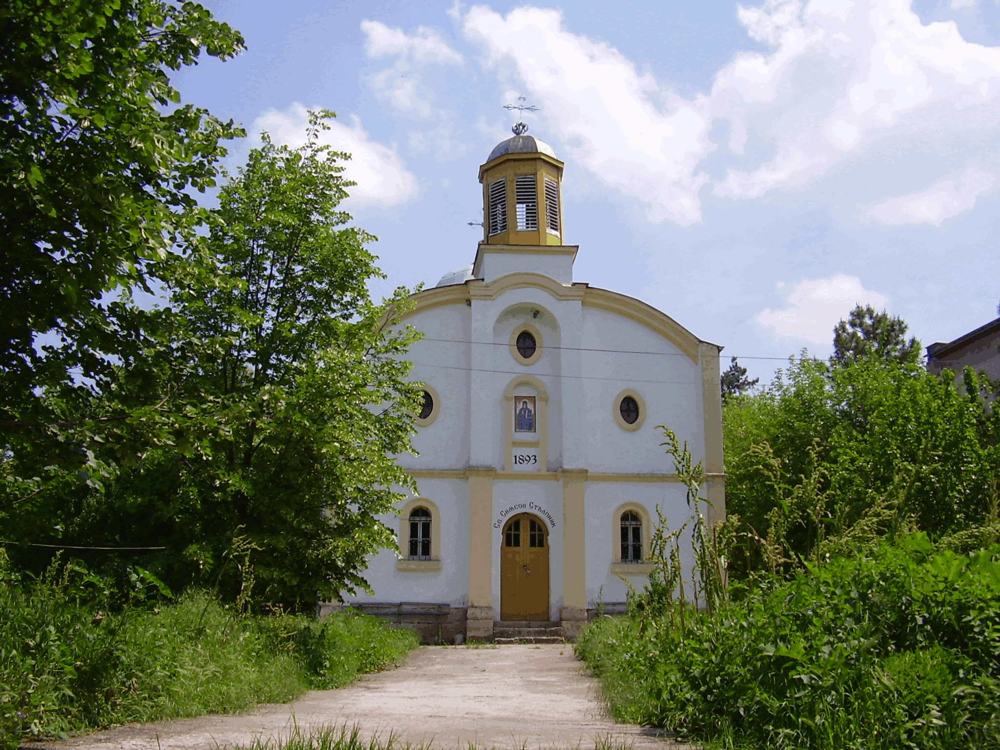 Church Saint Simeon Stylites (1893), Orehovitsa, Pleven, Bulgaria